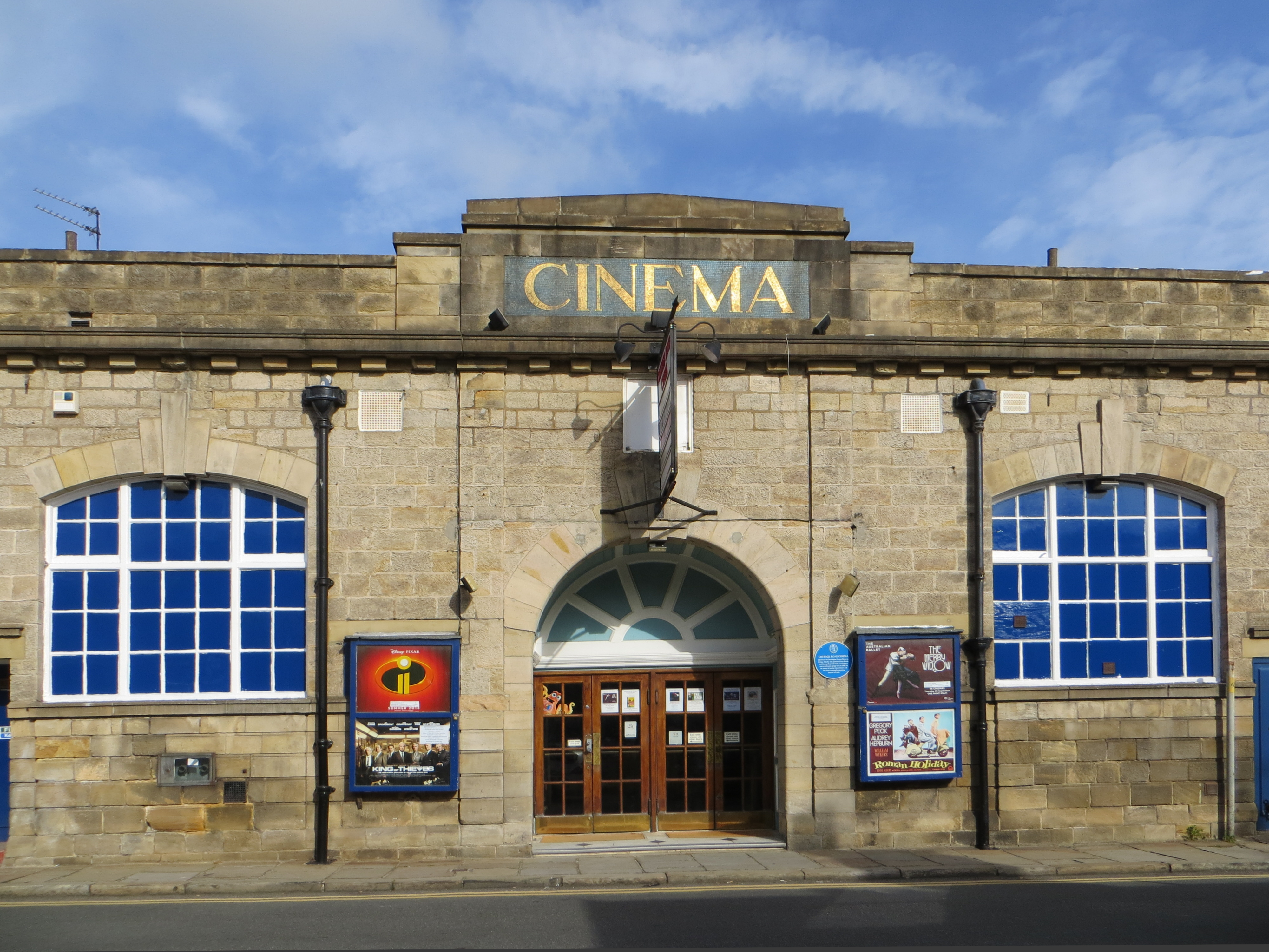 Cottage Road Cinema, 7 Cottage Road, Leeds, LS6 4DD. Main entrance.